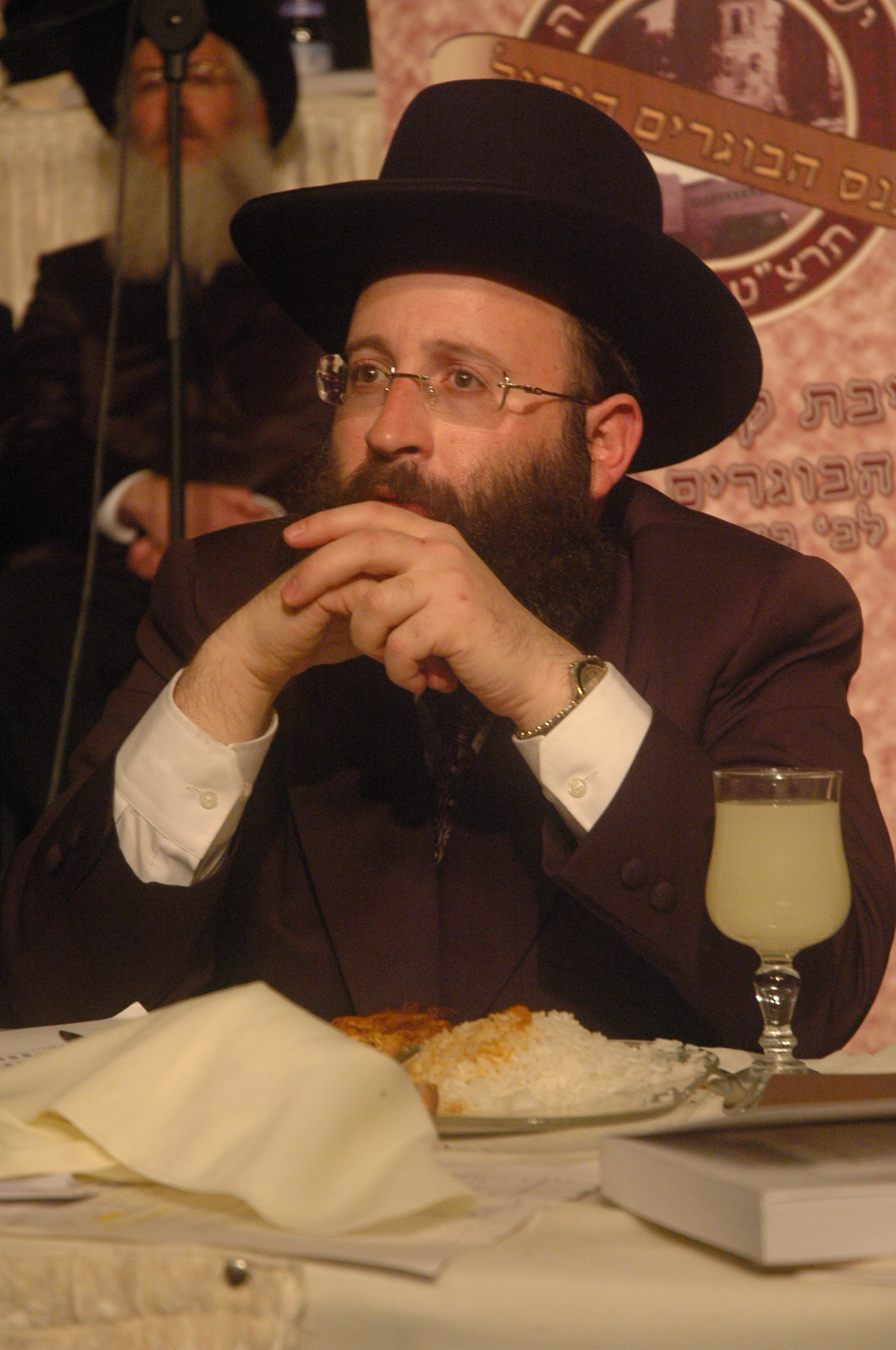 The Raabi of The Western wall